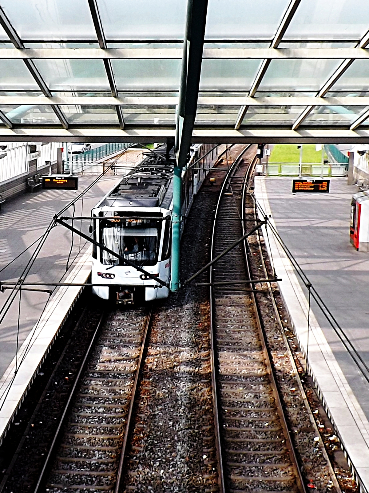 U35 CampusLine at Ruhr-Universität station